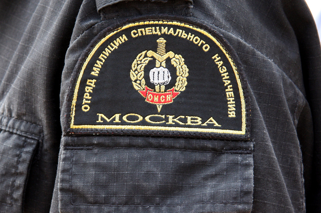 Moscow OMSN sleeve patch